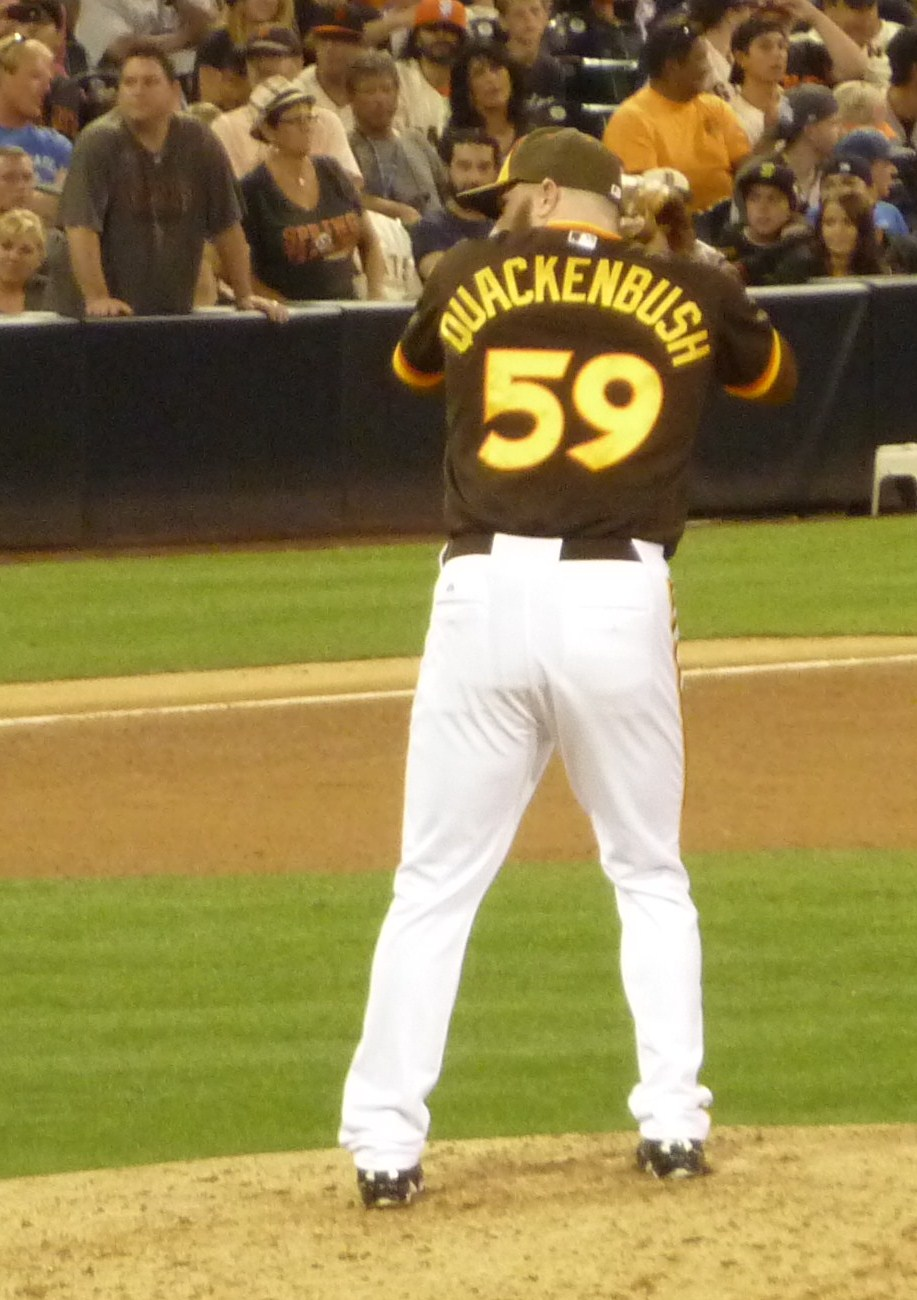 Kevin Quackenbush pitching for the San Diego Padres at Petco Park in 2014